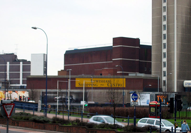 Lewisham shopping centre taken by C Ford, March 04.